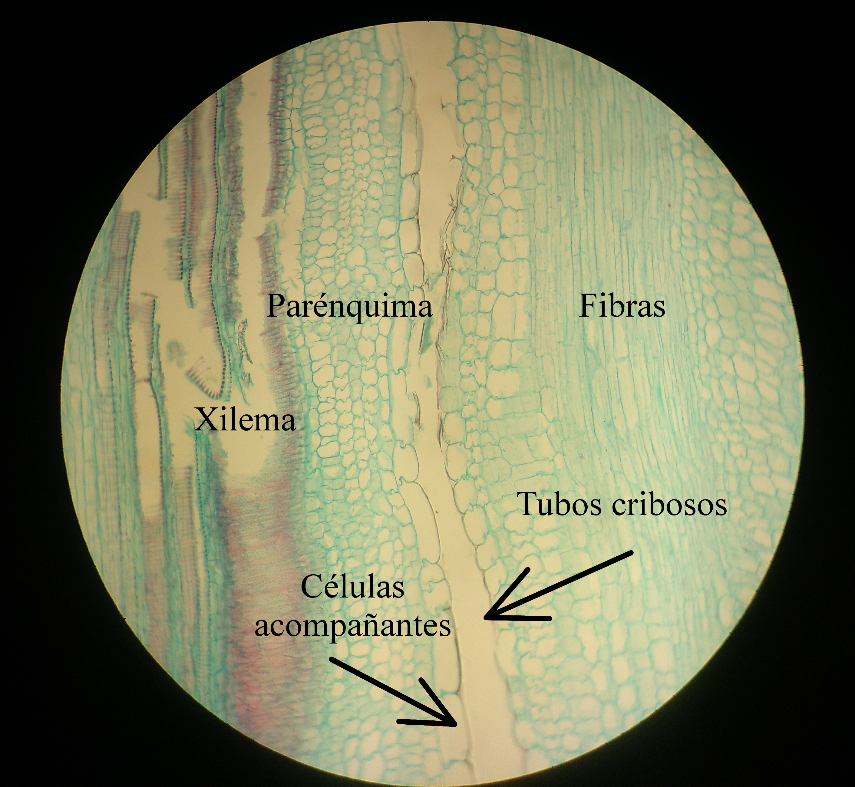 Sieve tubes, xylem, phloem and fibres in a plant